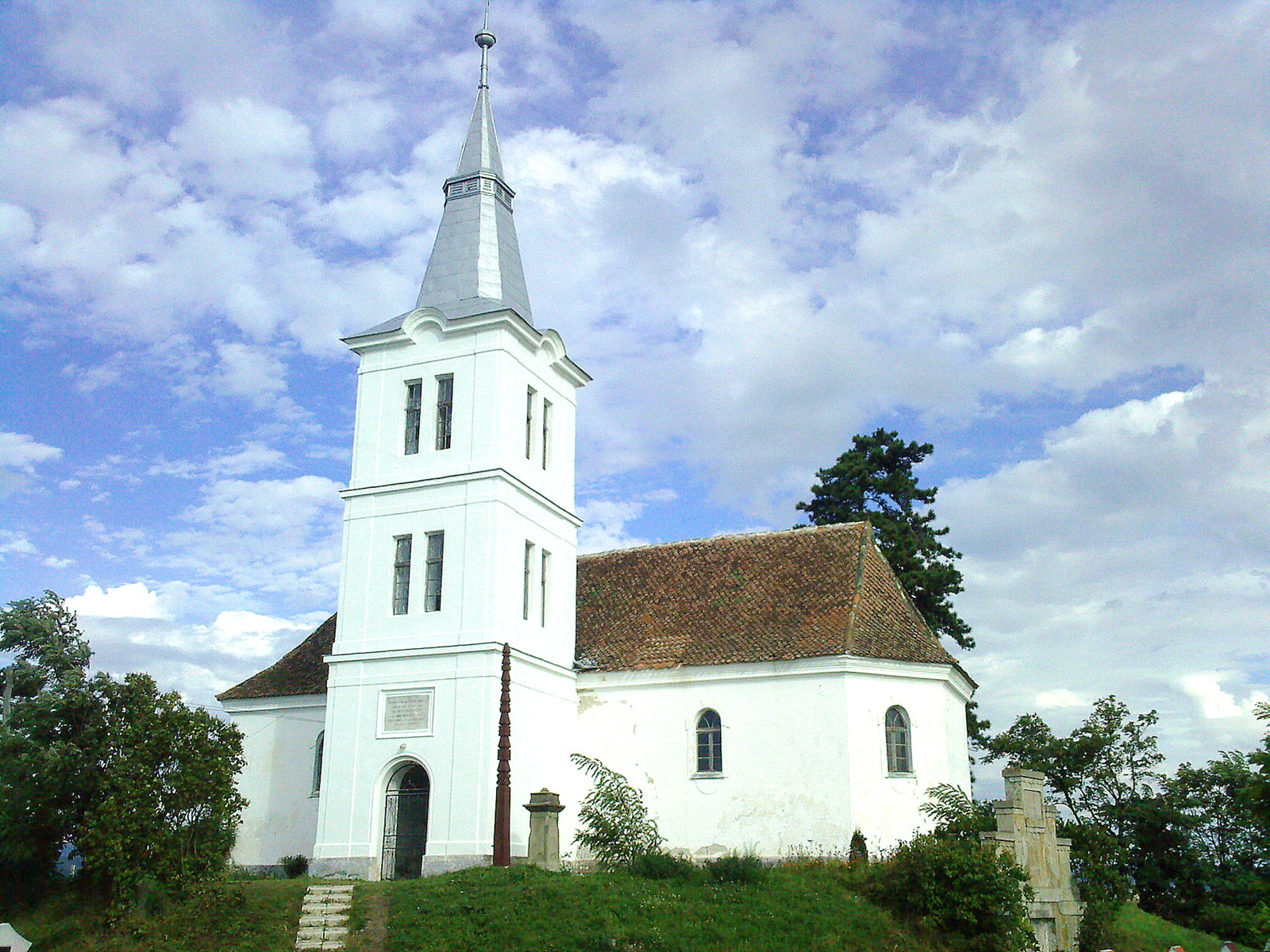 Reformed Church in Chilieni (Sfântu Gheorghe), Covasna County, Romania